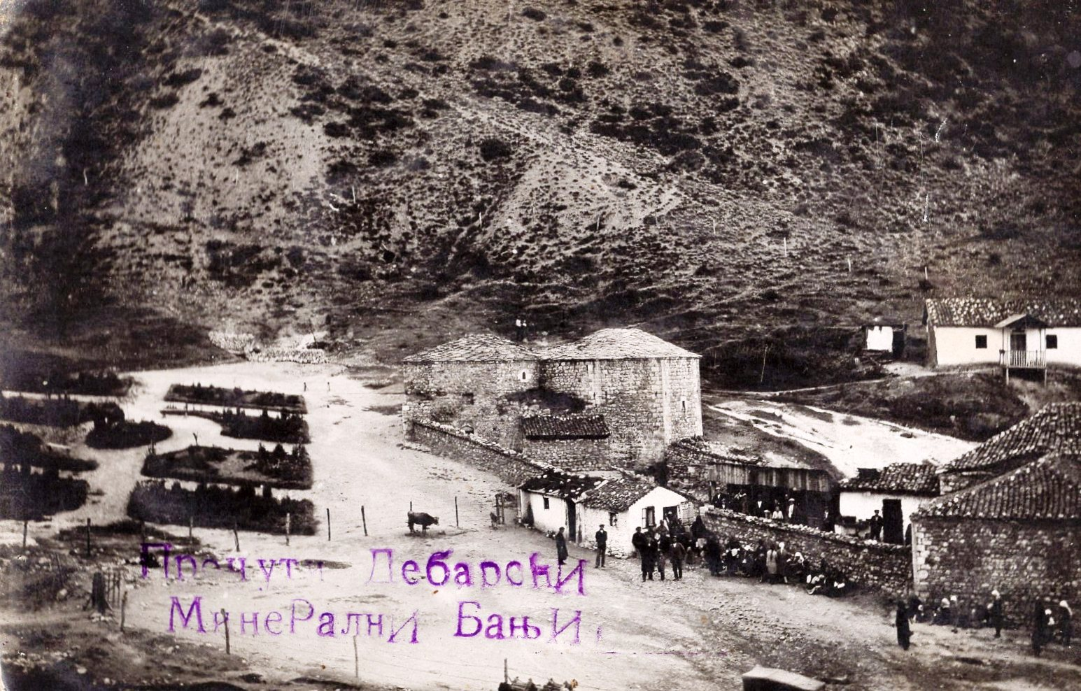 Debar Spa, 1920's This media file is produced by Wikipedian in Residence in Category:Wikipedian in Residence at DARM in 2016.